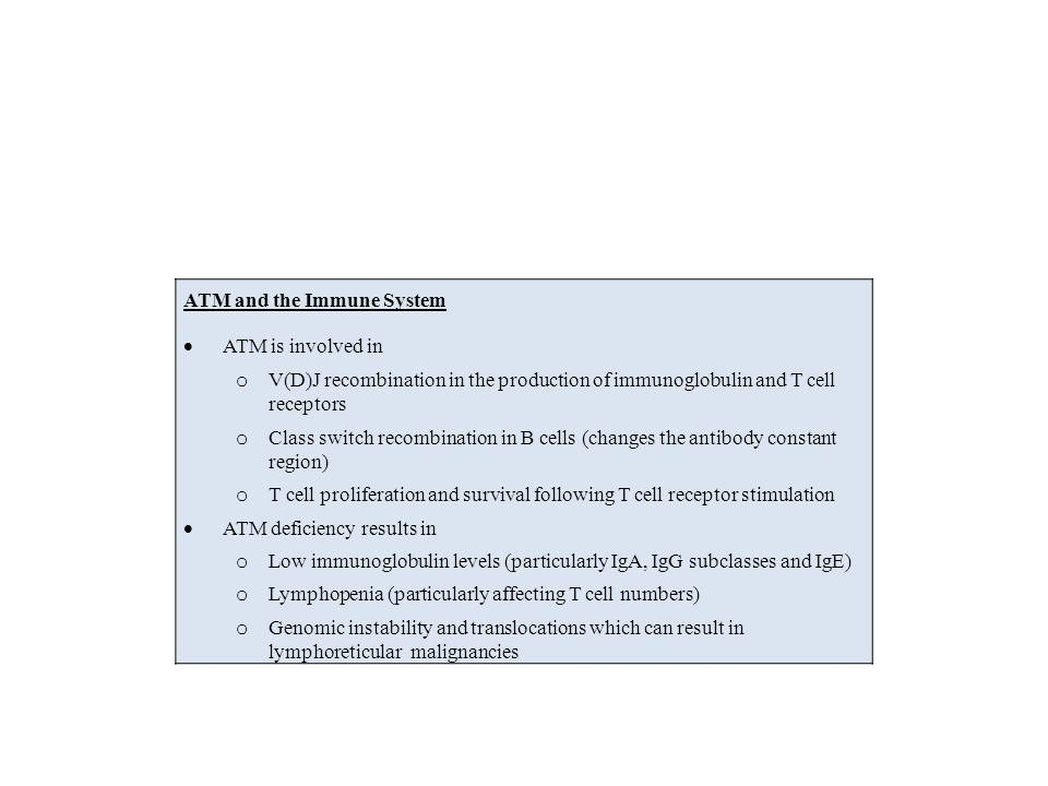 This table summarizes the role of the ATM protein in the immune system and the clinical consequences when it is absent.